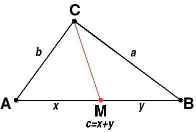 Illustration of Stewart's Theorem